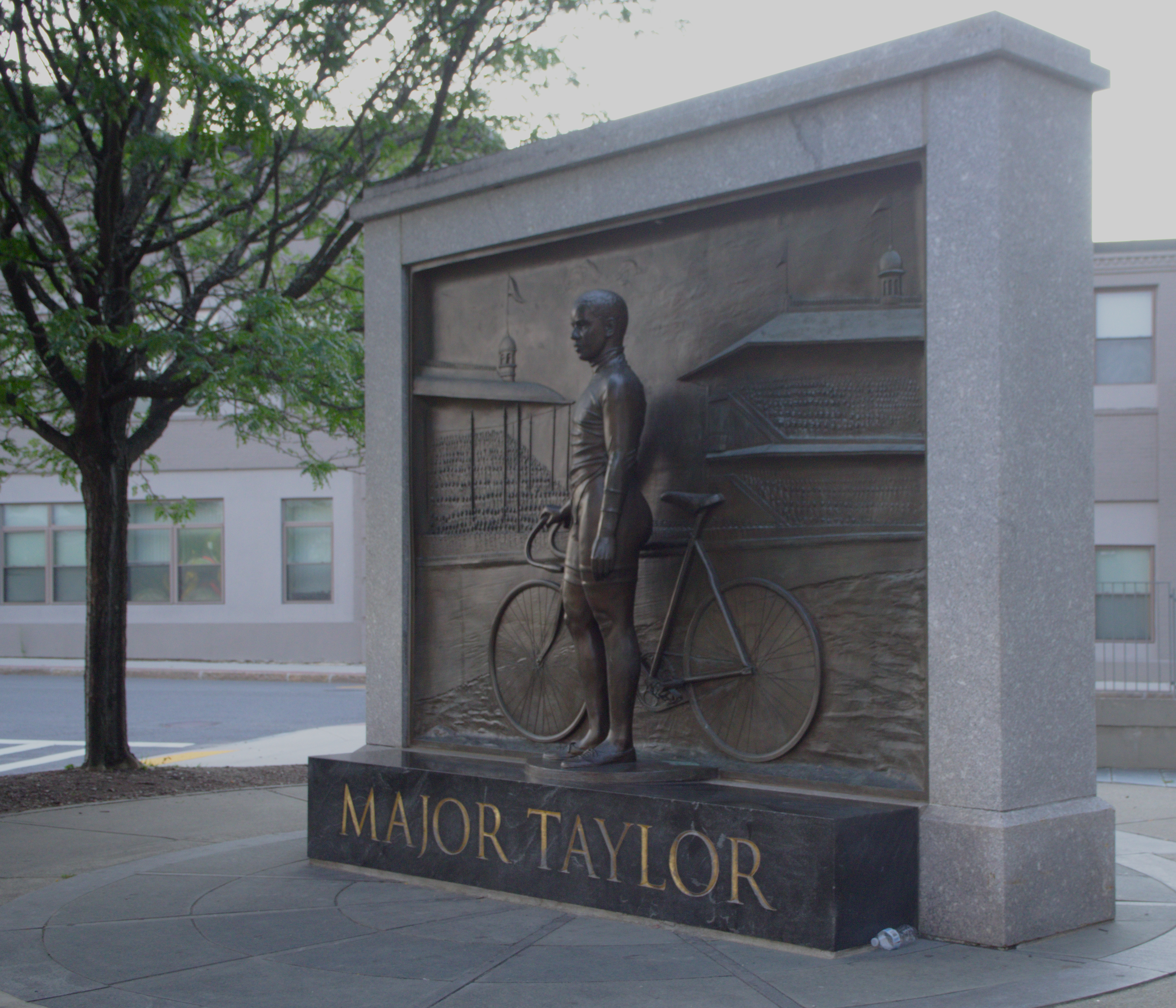 A memorial to the cyclist Marshall "Major" Taylor who resided in Worcester, MA.